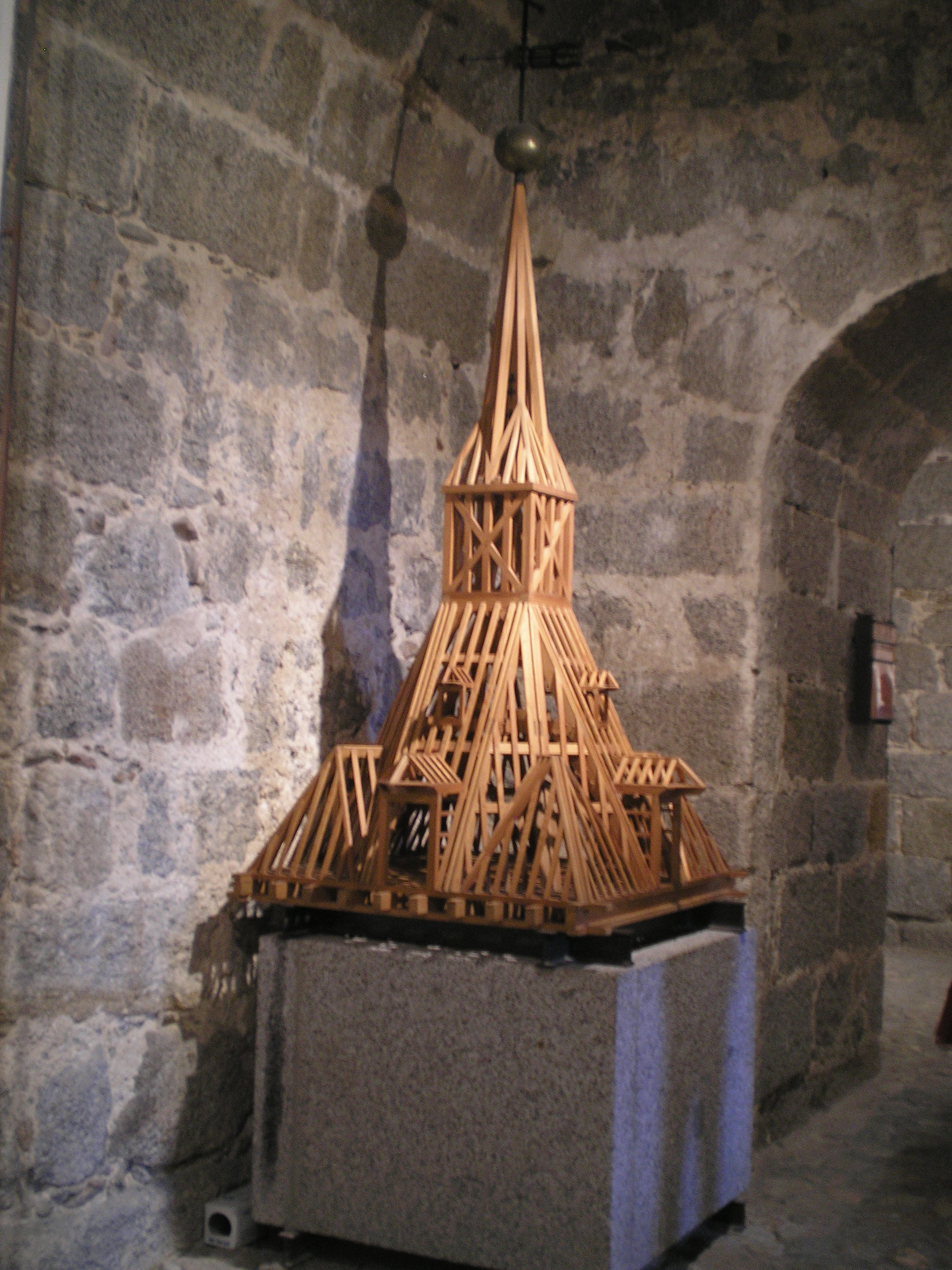 Wooden model of the roofs of the Monastery of San Lorenzo de El Escorial (Architecture museum).